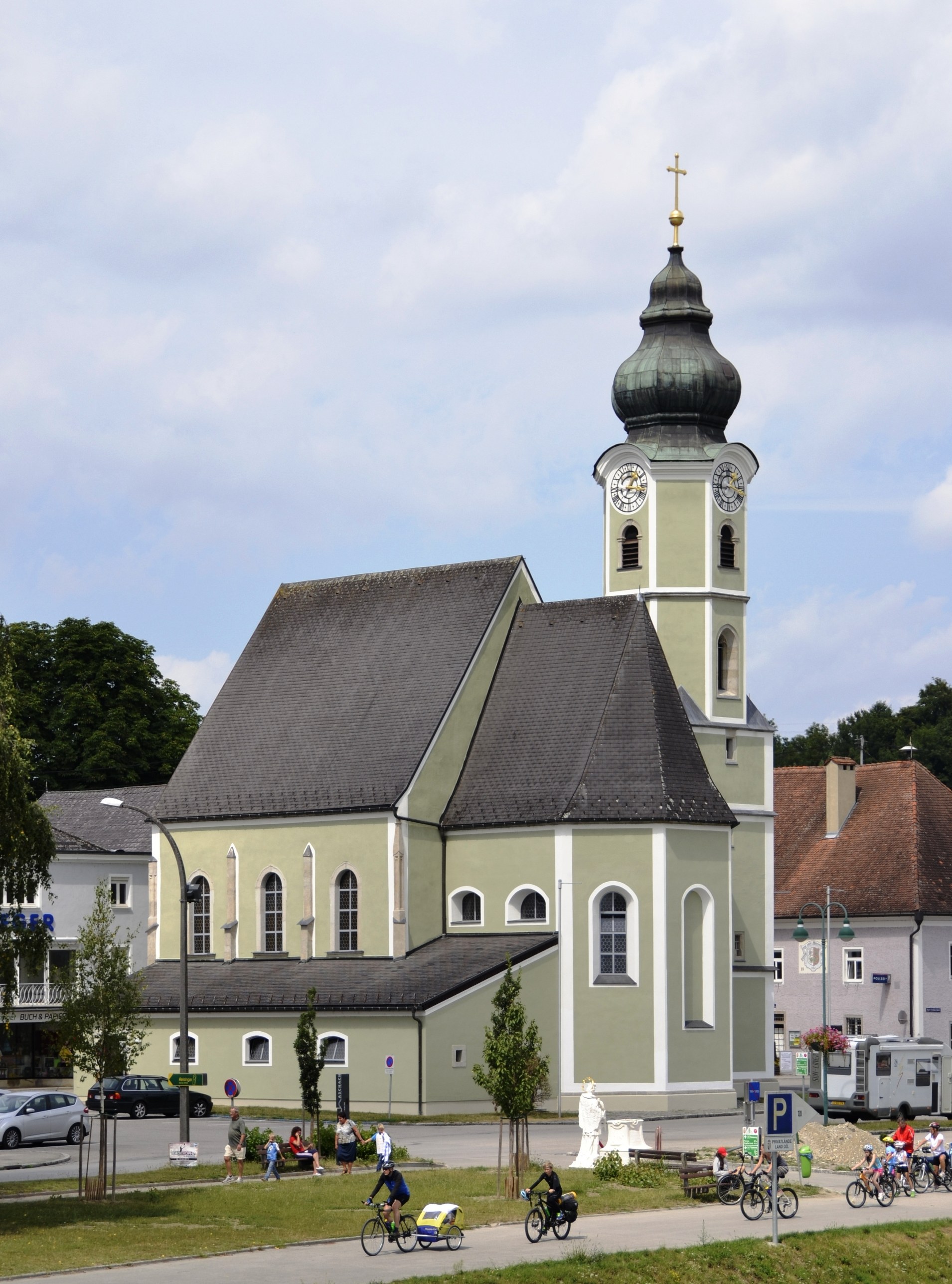 The Church with Donaukreuz in Aschach an der Donau, Upper Austria.